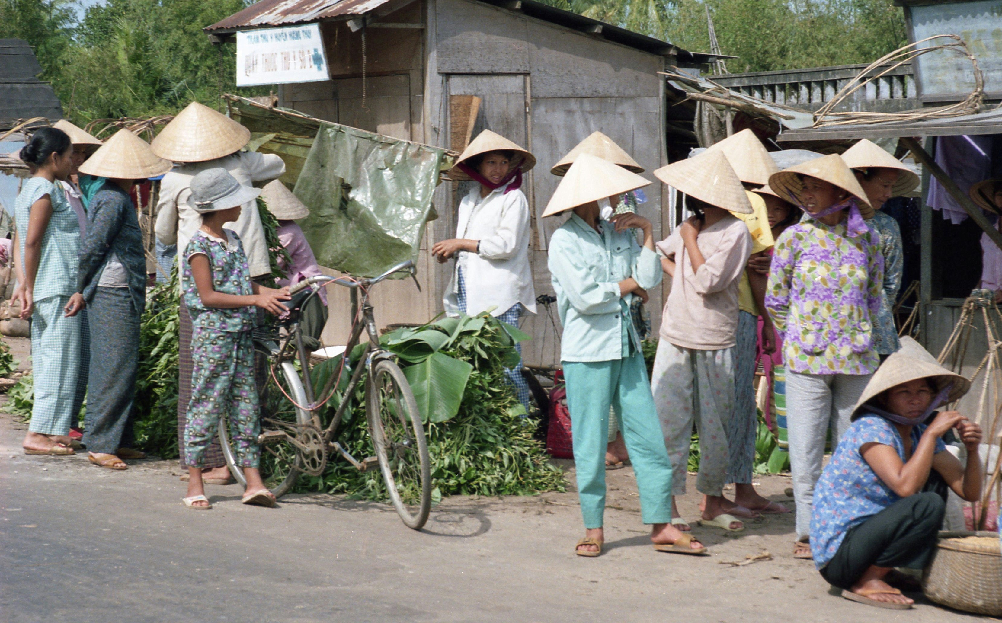 Women in Da Nang, Vietnam